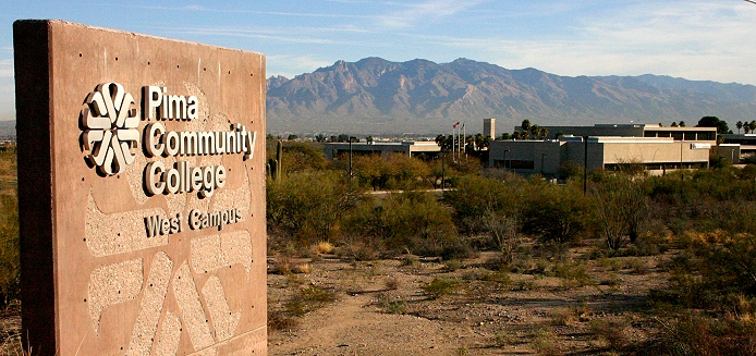 Pima Community College West Campus in Tucson, from the corner of Anklam Road and Greasewood Road, looking northeast.